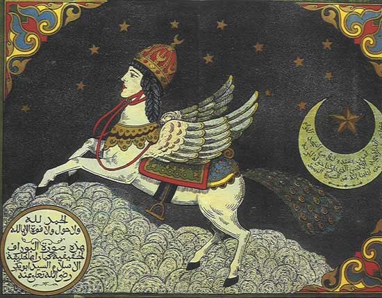 Reproduction of 17th century Indian (Mughal) miniature - public domain